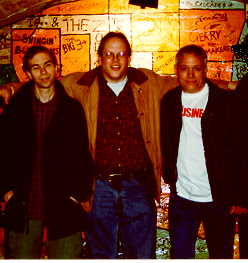 Shrubs publicity photo